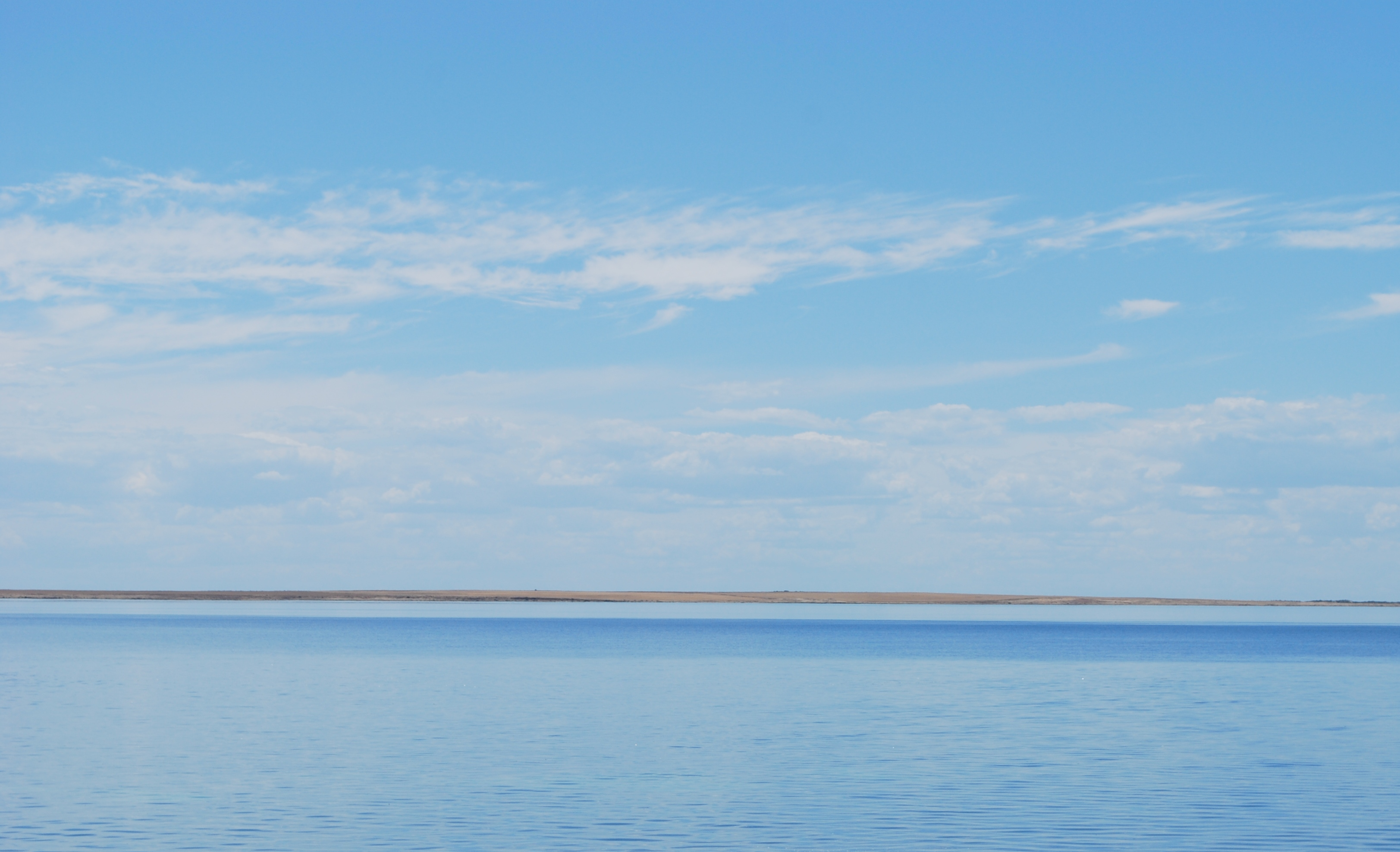 Wardang Island seen from Port Victoria, South Australia